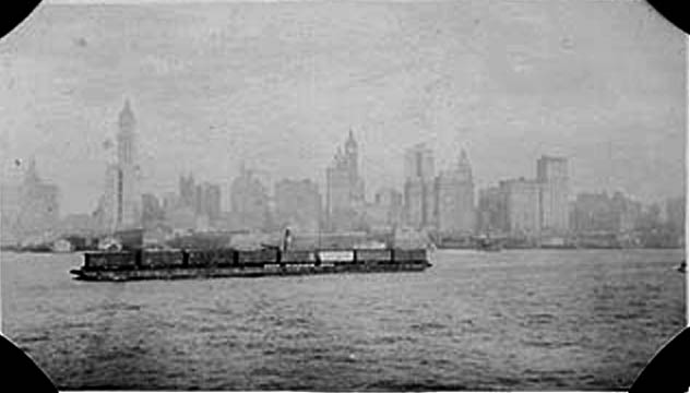 View of railway car float in New York Harbor. Photo cropped and recontrasted.